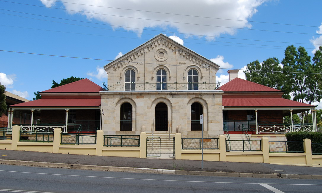 Photograph of the original Ipswich Courthouse as it is today.